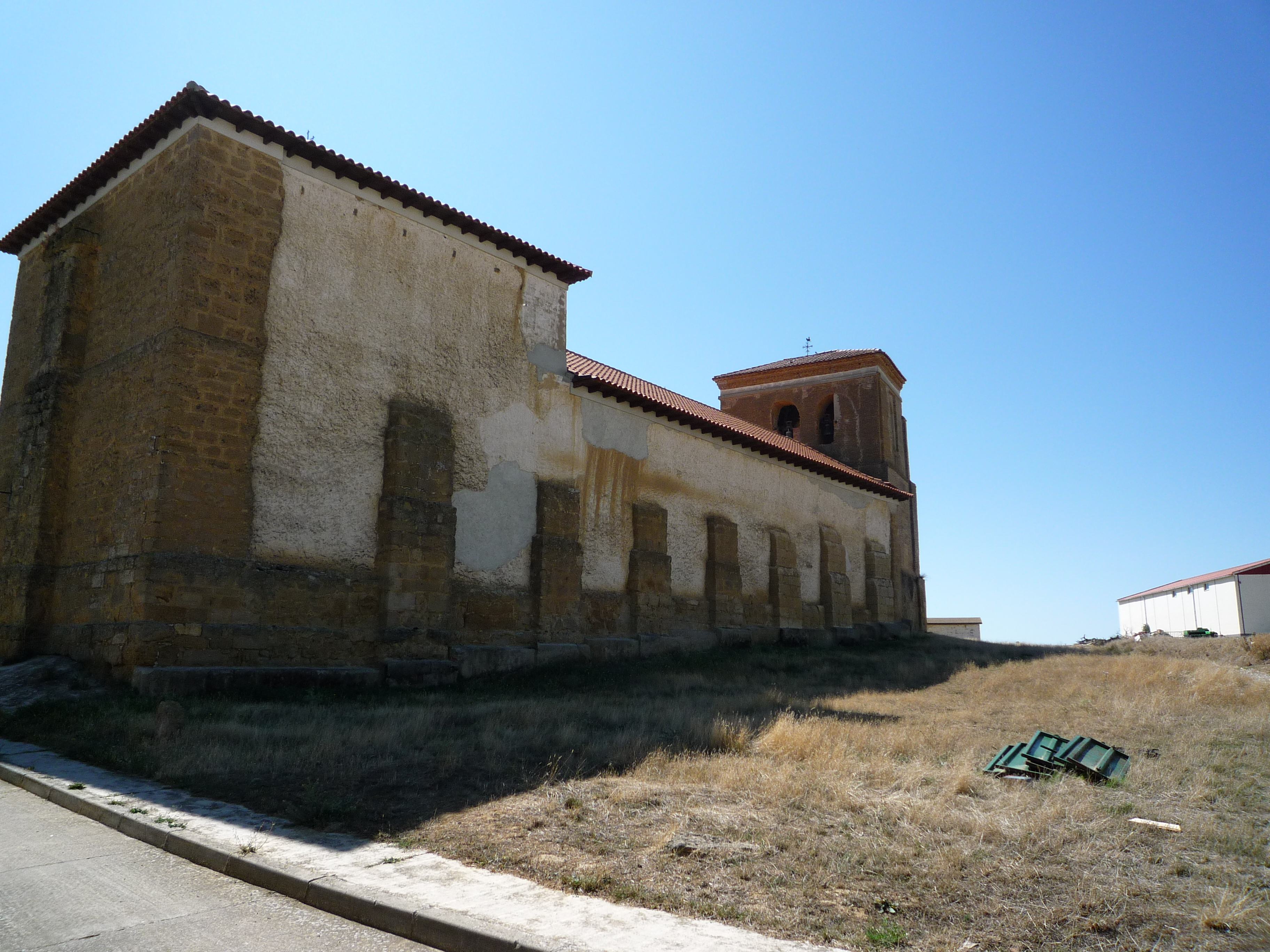 View of St. Martin church in Villarmentero de Campos, province of Palencia, Spain